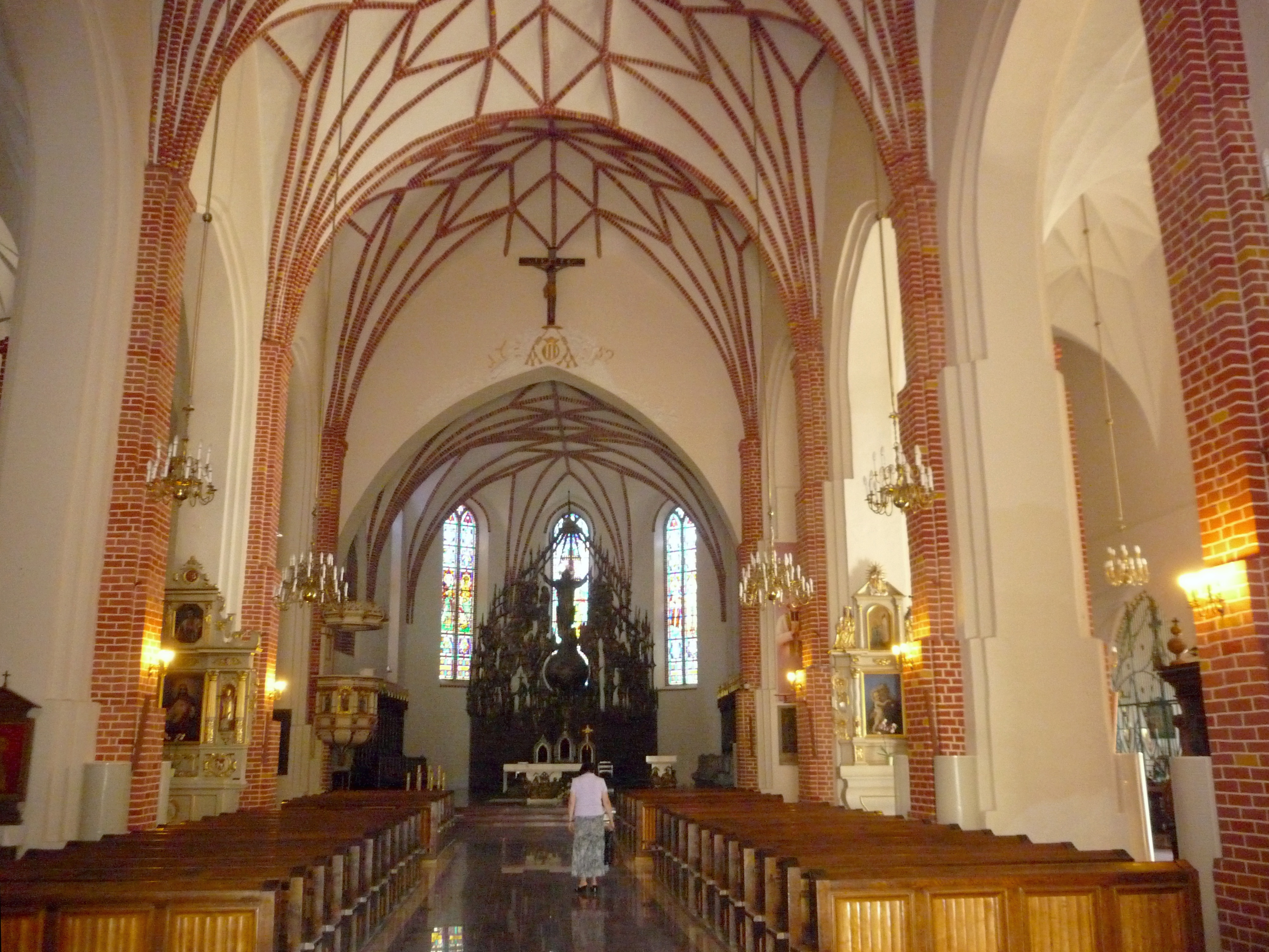 Cathedral in Łomża - interior